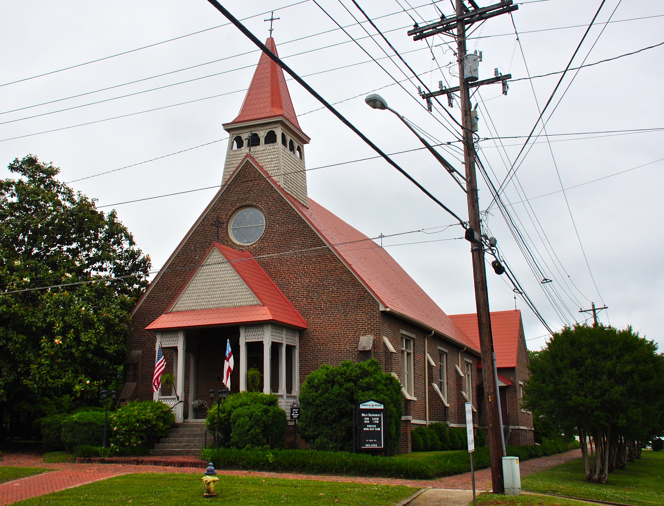 NRHP# 83003031 Listed 28 July 1983. Located at Pulaski, Giles County, Tennessee.